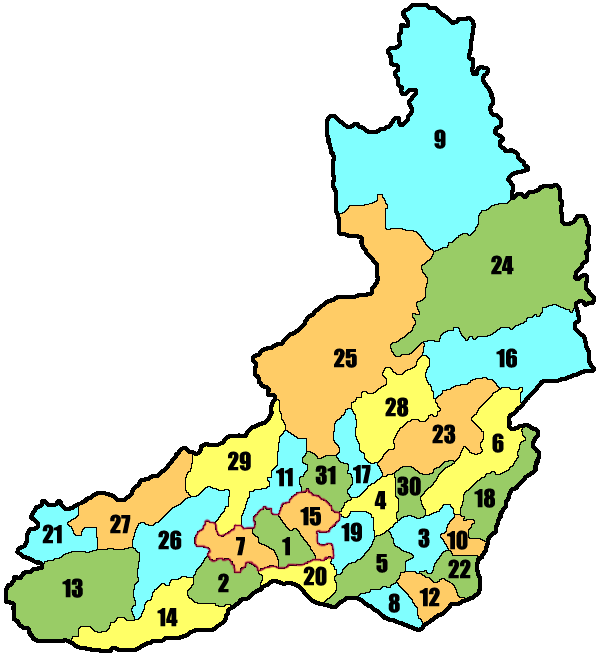 Map of areas of Zabaykalskiy kray